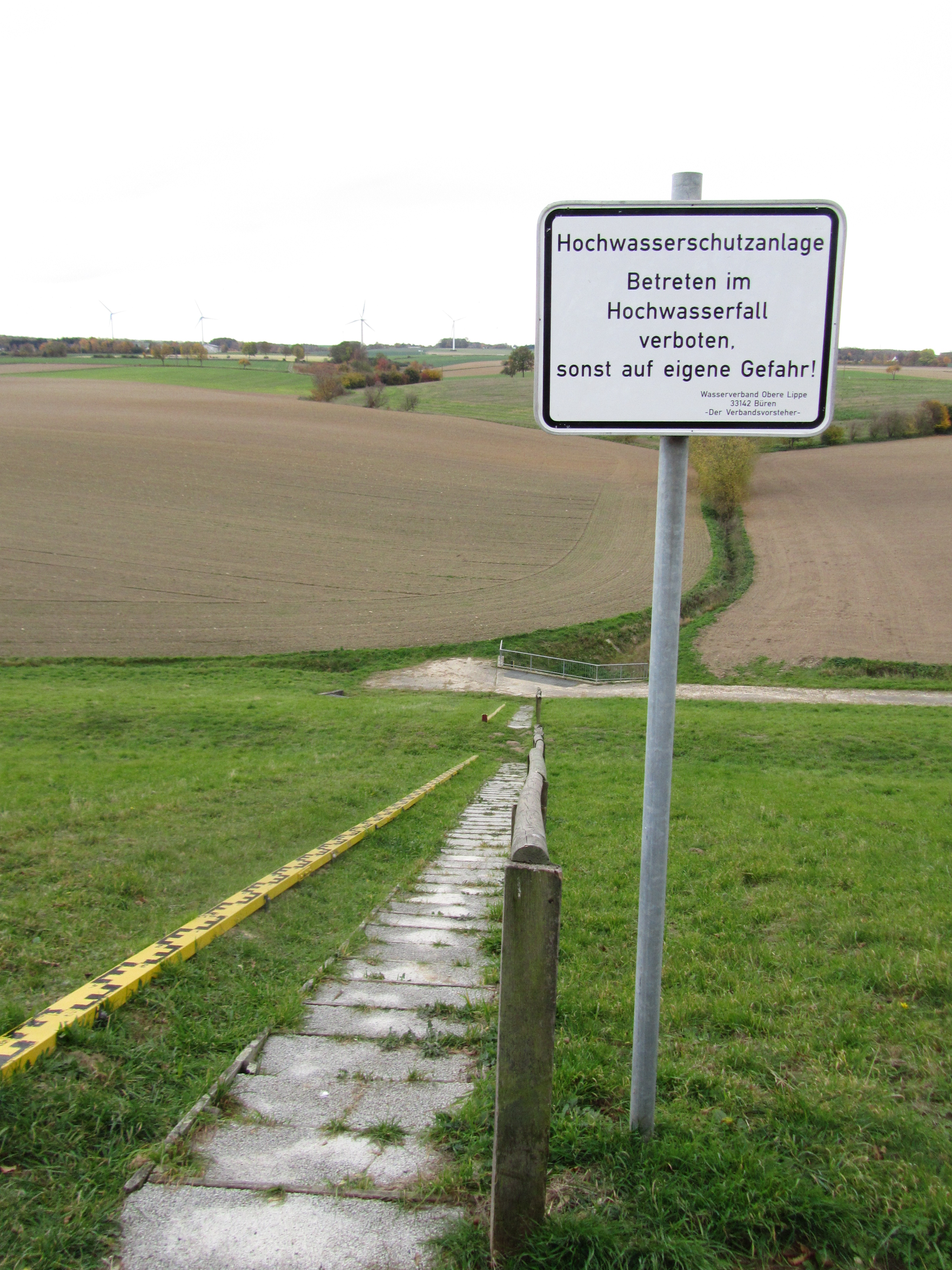 Flood barrage between hills of Haarstrang south of Soest, Germany